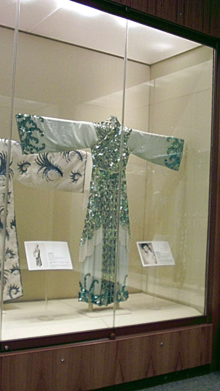 Cantonese Opera Actress Ms. Chun Siu Lay Uniform in 1950, kept in Hong Kong Heritage Museum 中文（香港）: 香港文化博物館藏品：粵劇紅伶秦小梨的戲服